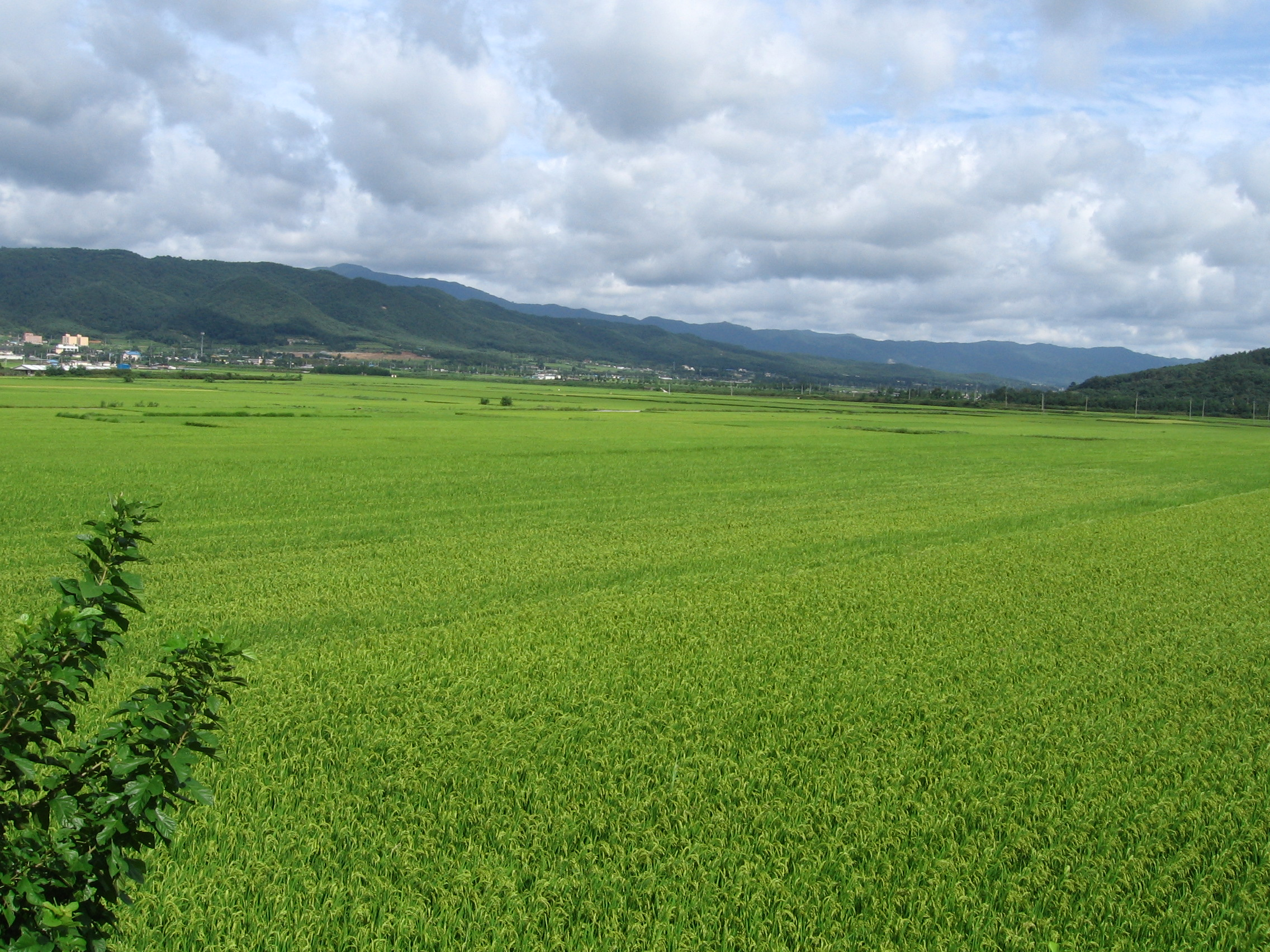 Rice fields in Gyeongju, South Korea